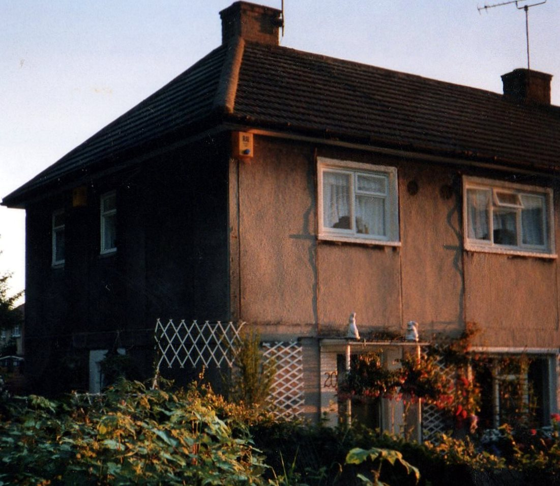 A cinder-panel house in Swarcliffe, Leeds